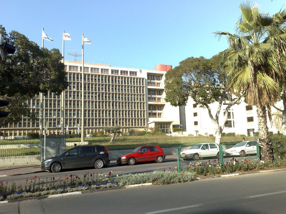 The Histadrut Building, "Beit Havad Hapoel", Arlozorov Street, Tel Aviv-Yaffo